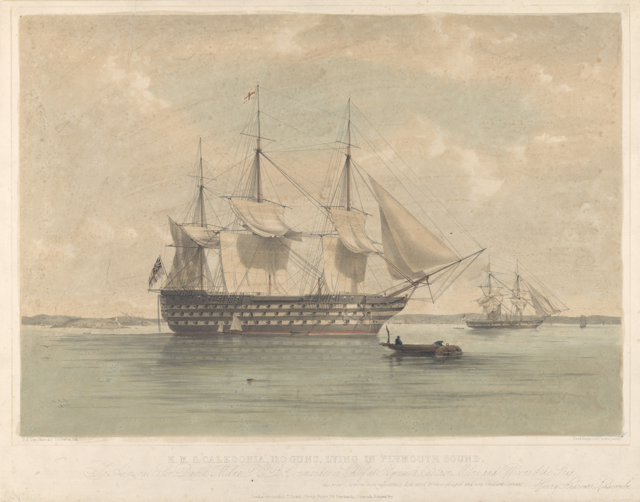 H.M.S. Caledonia, 120guns, lying in Plymouth Sound.... Hand-coloured.; Medium includes gum arabic.